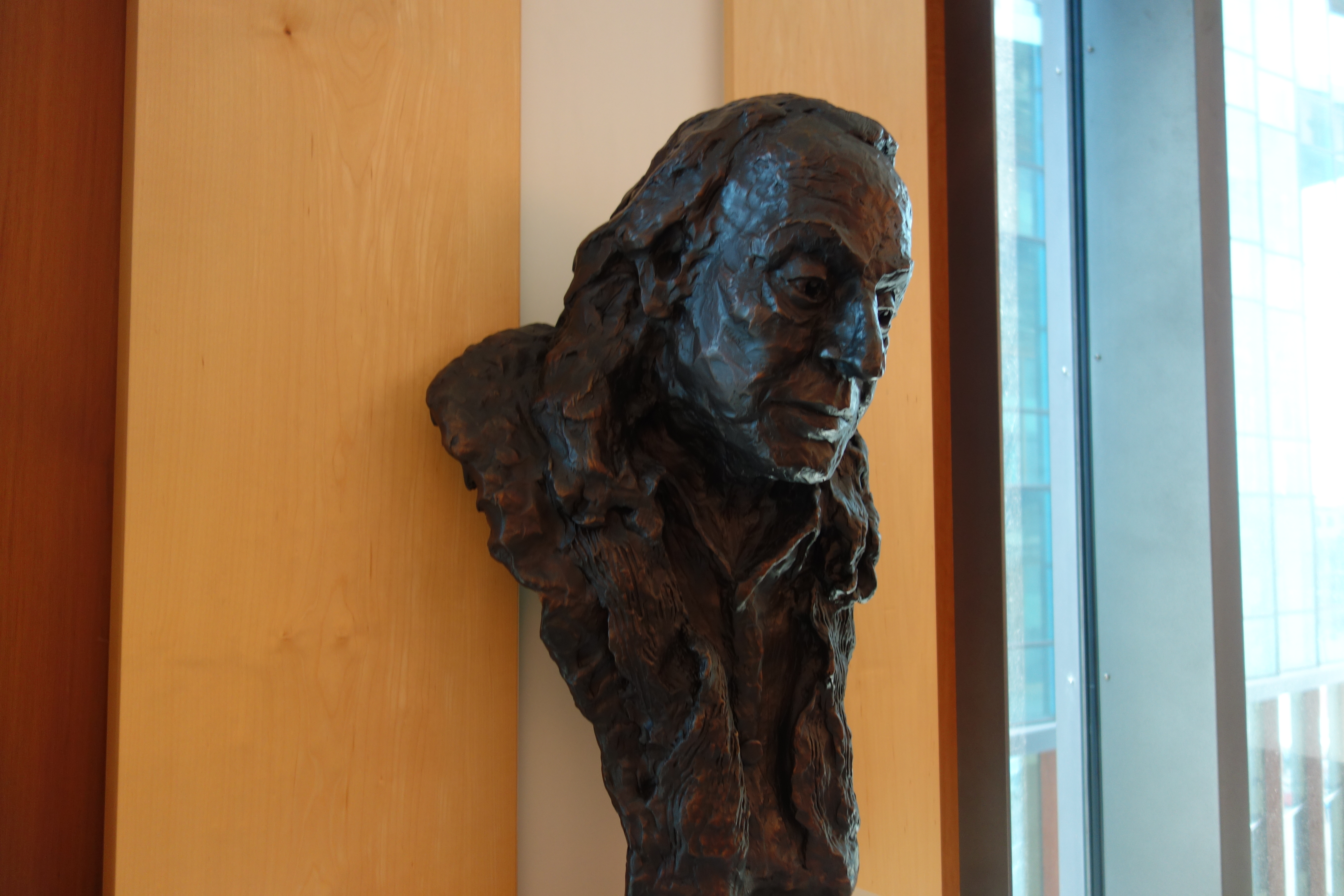 Bust of Simon Vinkenoog by Jeroen Spijker (2011)